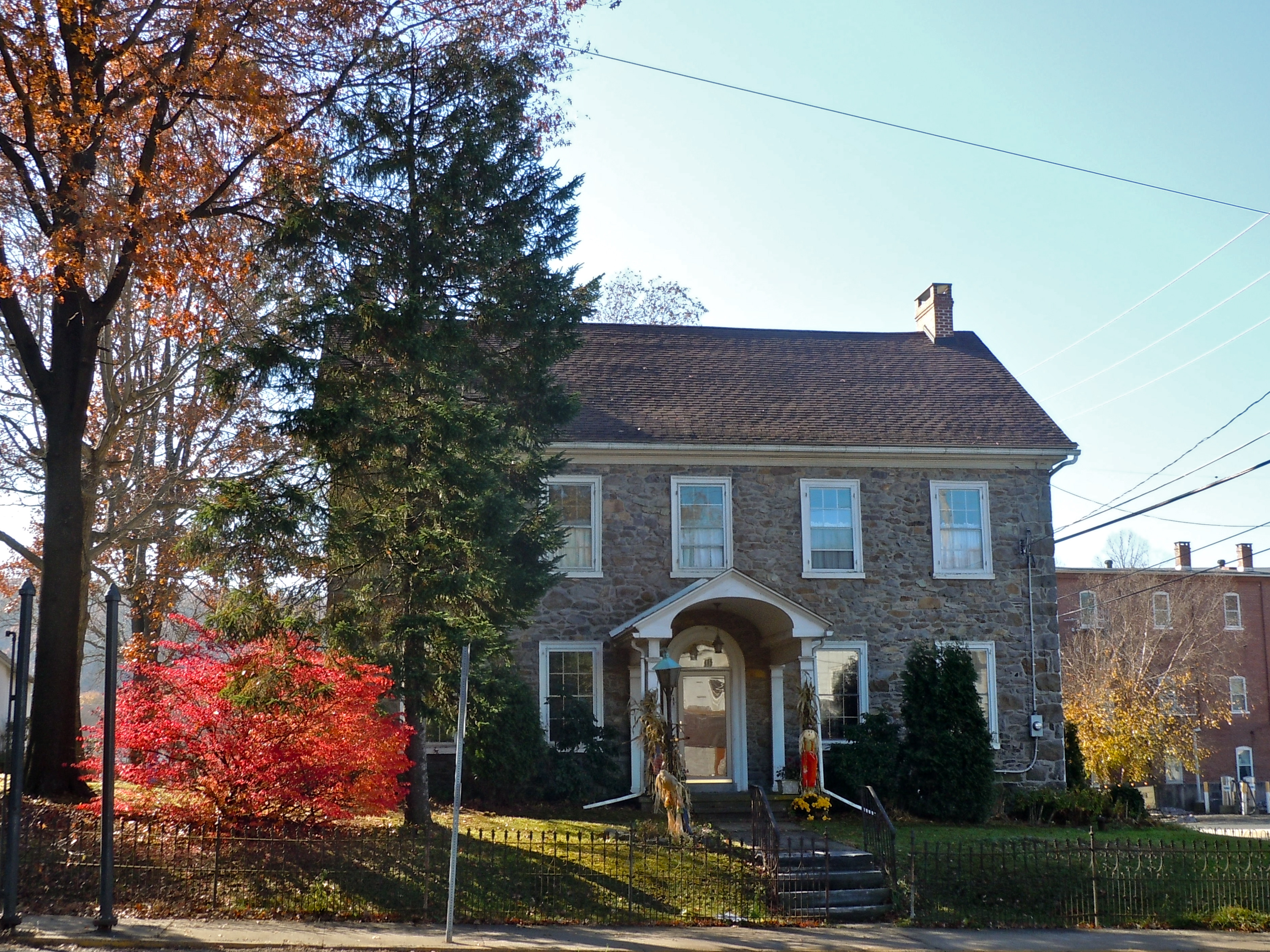 William and Caroline Schall House on the NRHP since October 11, 2007. At 100 Main Street, Green Lane, Montgomery County, Pennsylvania.